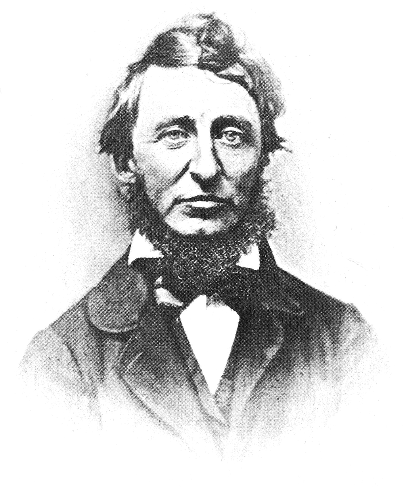 Henry David Thoreau Picture